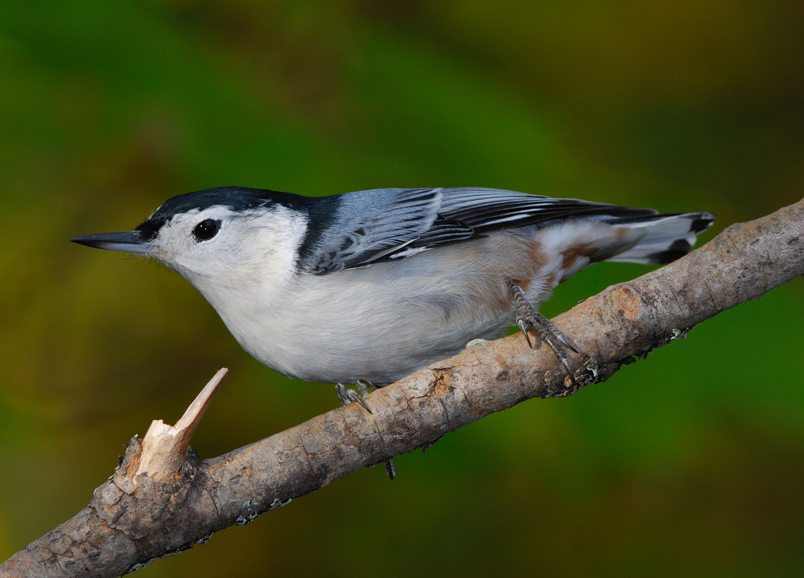 White-breasted Nuthatch Sitta carolinensis perching on a branch. Southwestern Ontario.